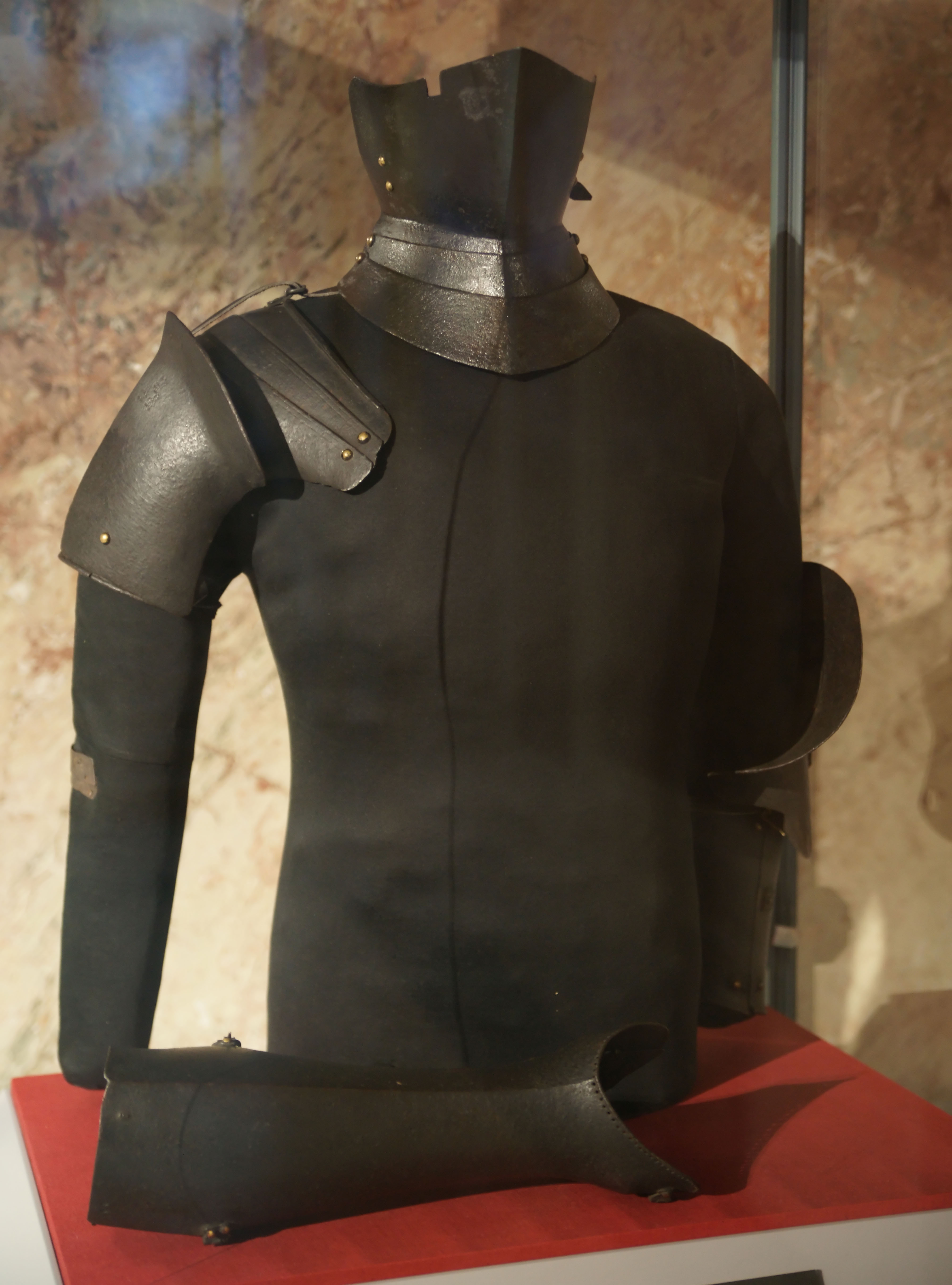 Armor of Sigismondo Pandolfo Malatesta (19 June 1417 – 7 October 1468), Italian condottiero, c. 1460-65.